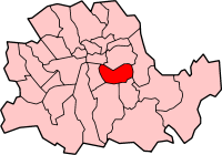 Map of the Metropolitan borough of Bermondsey, former County of London.